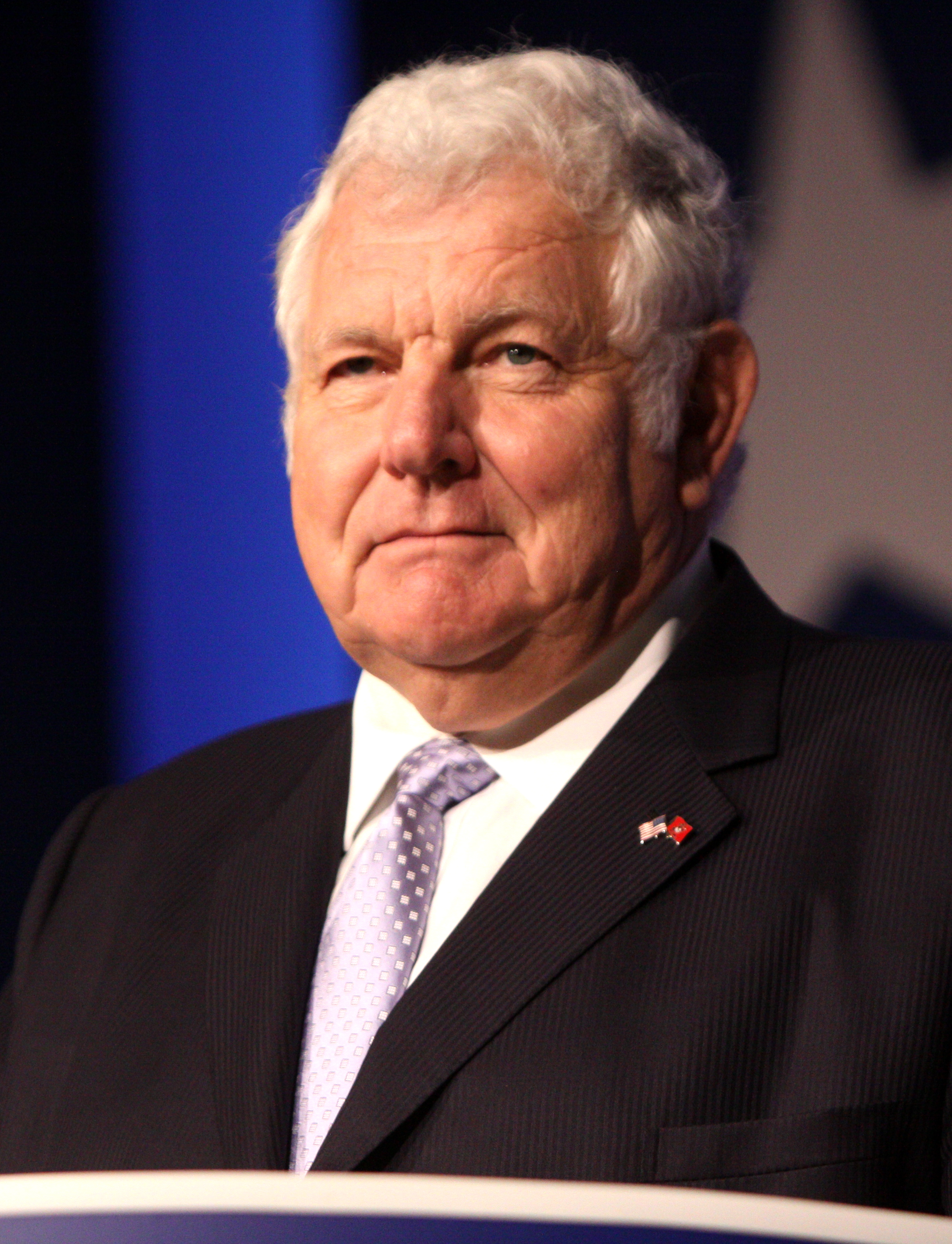 William Bennett speaking at the Values Voter Summit in Washington D.C. on October 8, 2011.